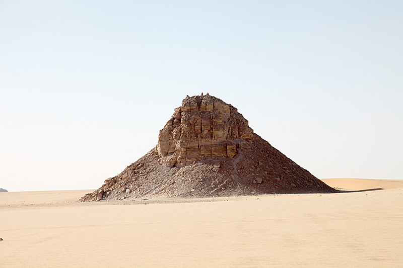 Rock, Abu Ballas, Western Desert, Egypt